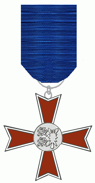 Order of Merit of Schleswich-Holstein in Germany